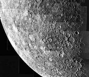 Mosaic image of Mercury taken by Mariner 10. It consists of 18 single images taken at 42 s intervals during a 13 minute period when the spacecraft was 200,000 km from the planet.